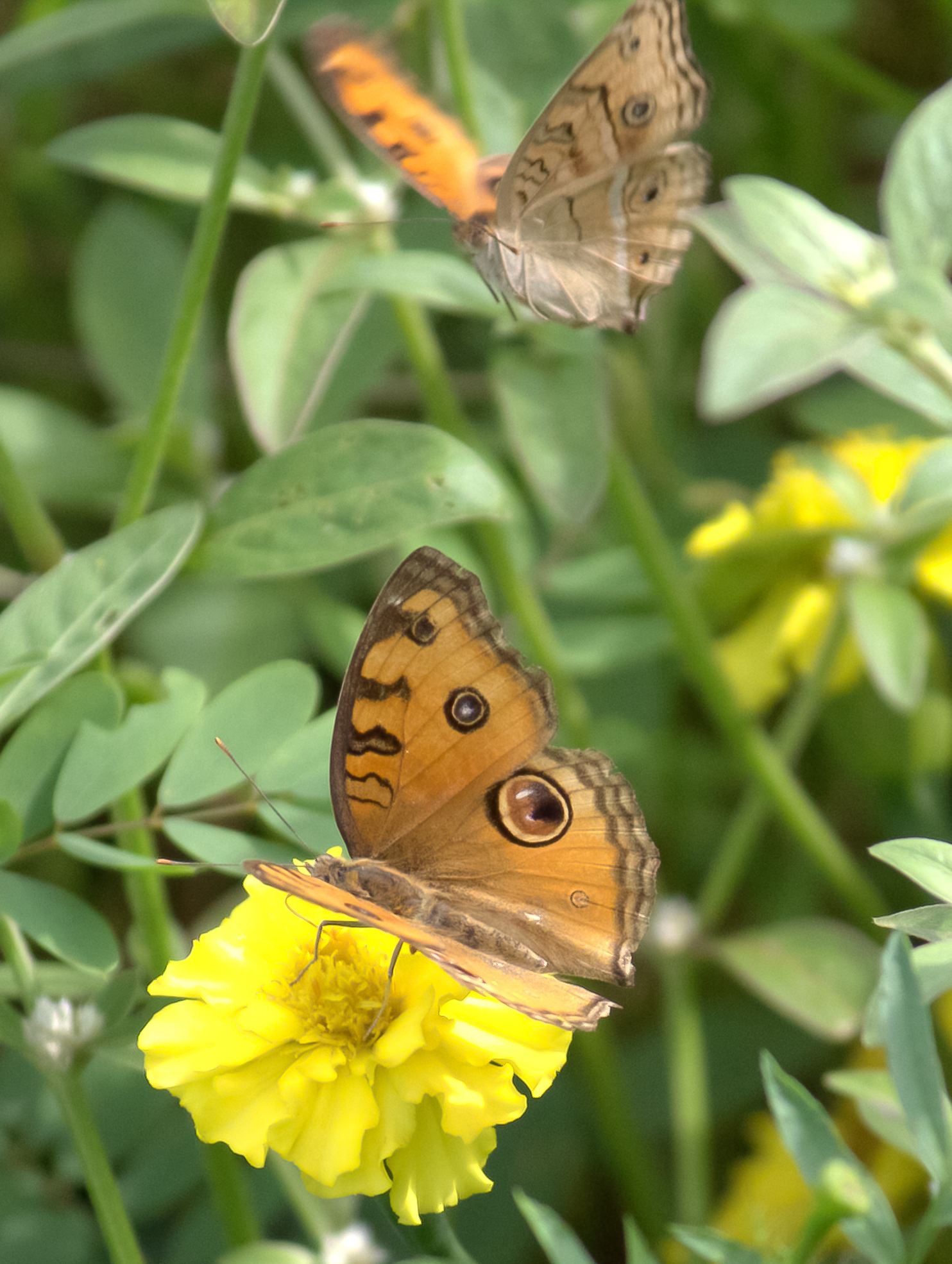 Peacock Pansy. Photo taken near the fishing harbor, Munambam, Kerala, India.